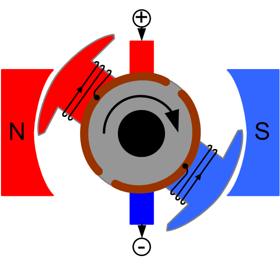 2 Pole DC motor PM